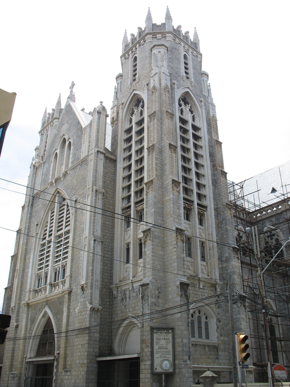 Gothic-styled Rosary Church at the corner of Henry and Park Street, Port of Spain, Trinidad.